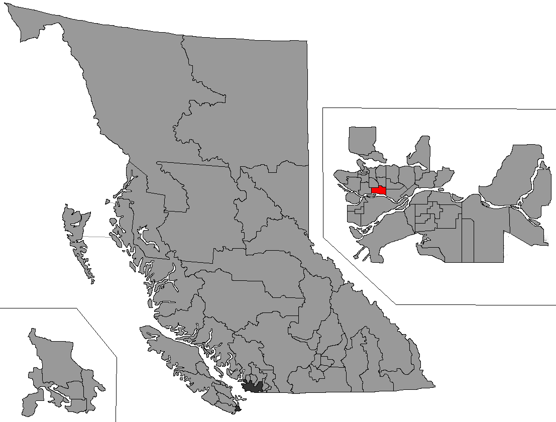 British Columbia 2015 electoral district redistrubution